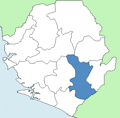 Map showing location of Kenema District in Sierra Leone